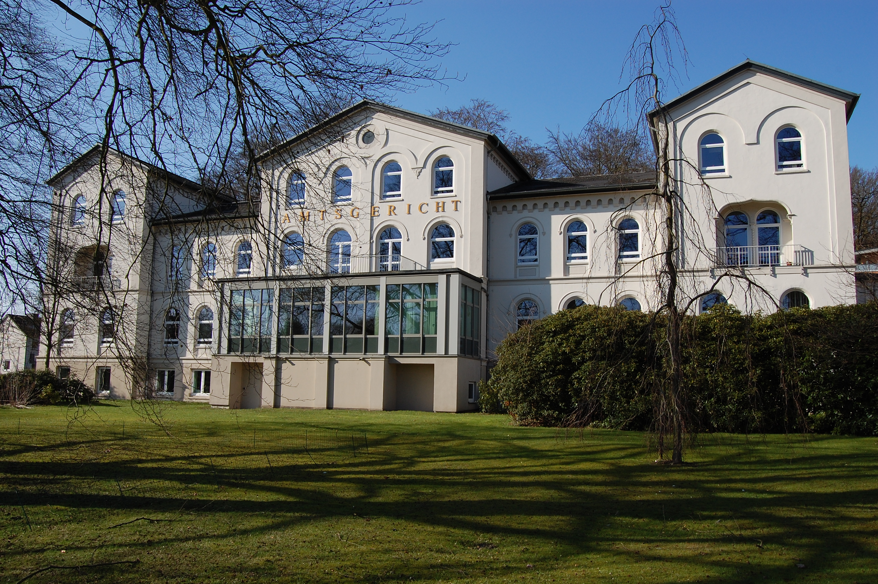 County court in Reinbek